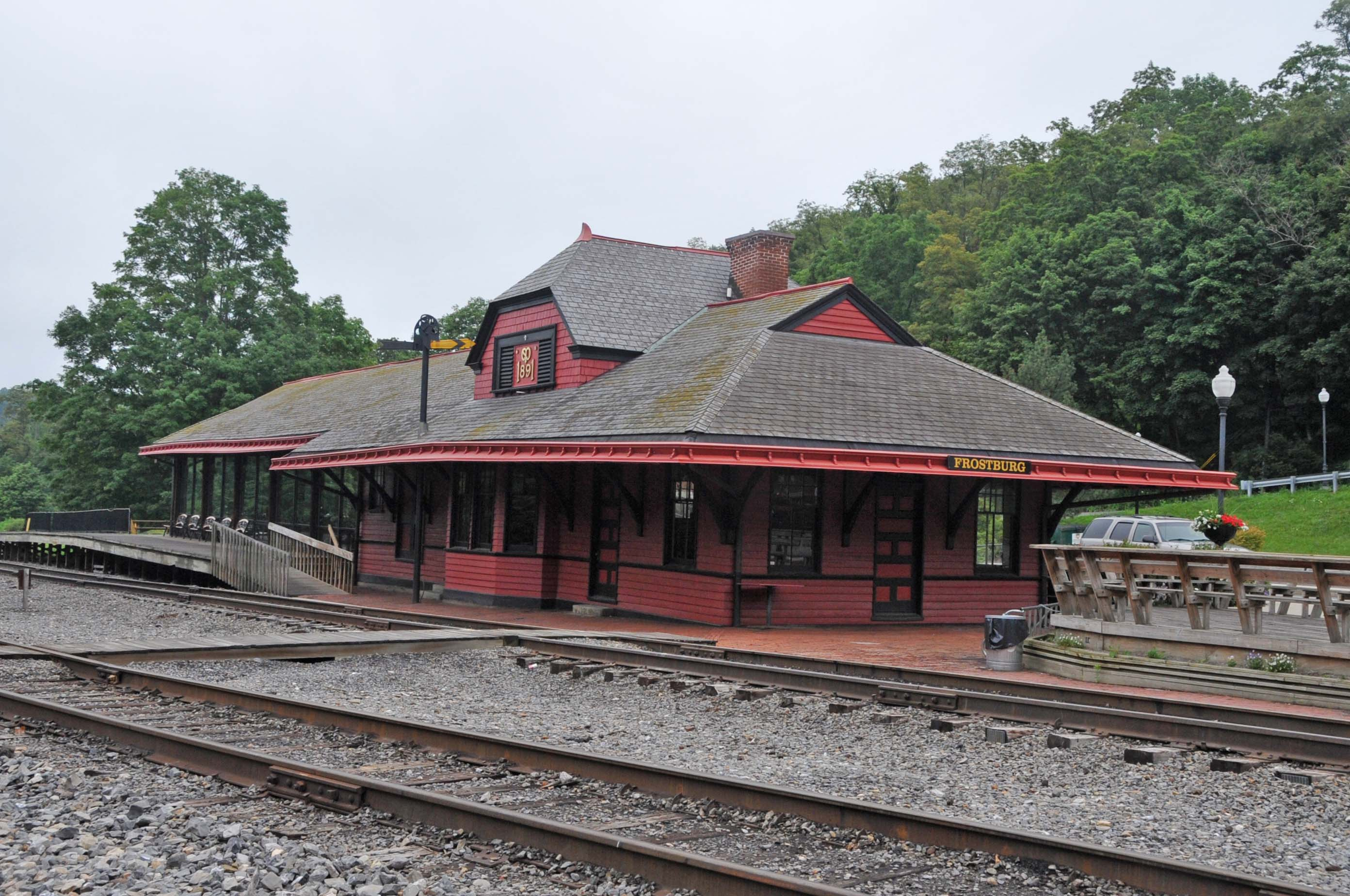 One of the major contributing historic buildings in Frostburg, Maryland is the old depot of the Cumberland and Pennsylvania Railroad, built in 1891. It was later acquired by the Western Maryland Railway. Today it is owned by the Western Maryland Scenic Railroad.